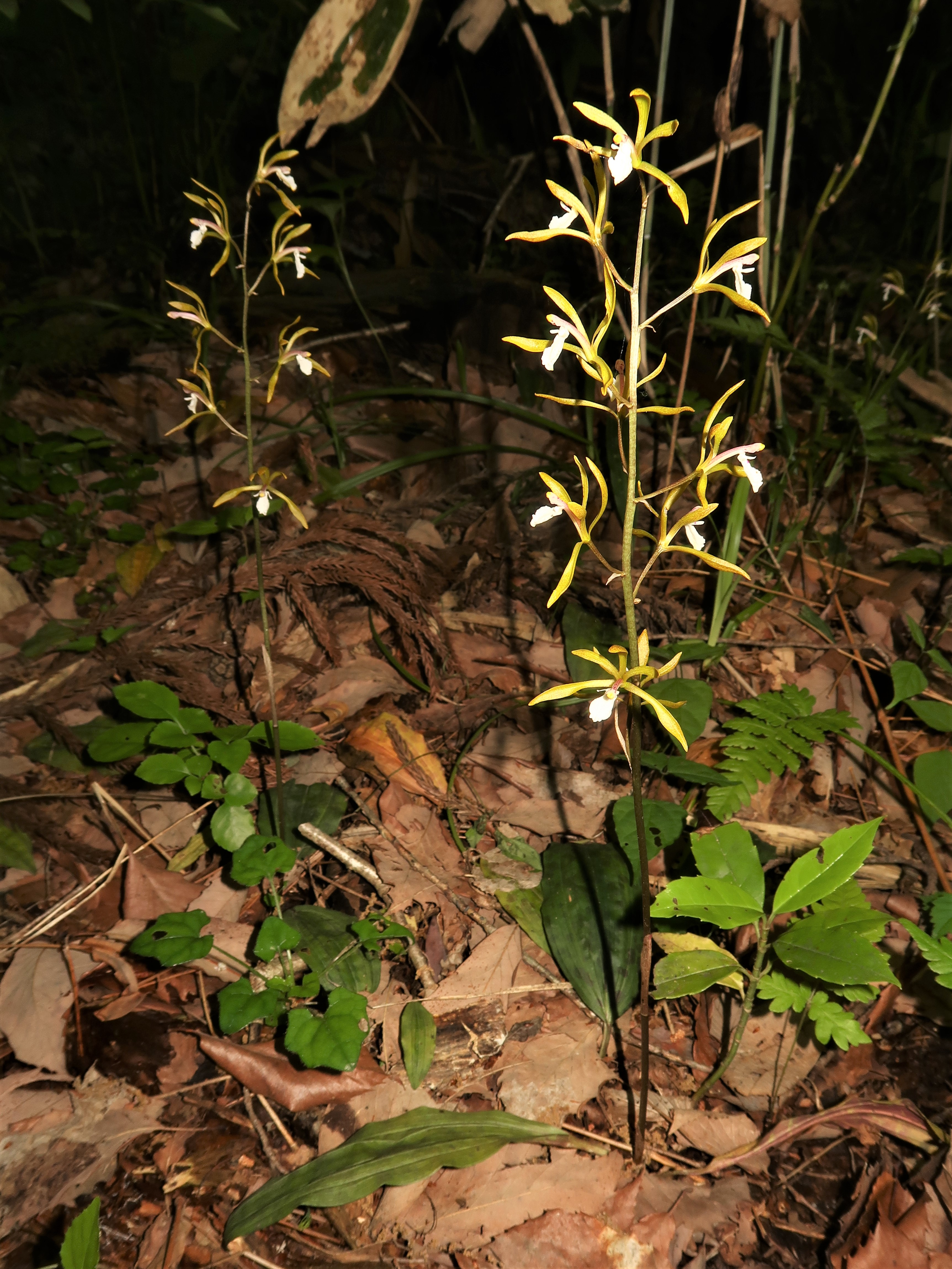 Cremastra unguiculata, Aizu area, Fukushima pref., Japan